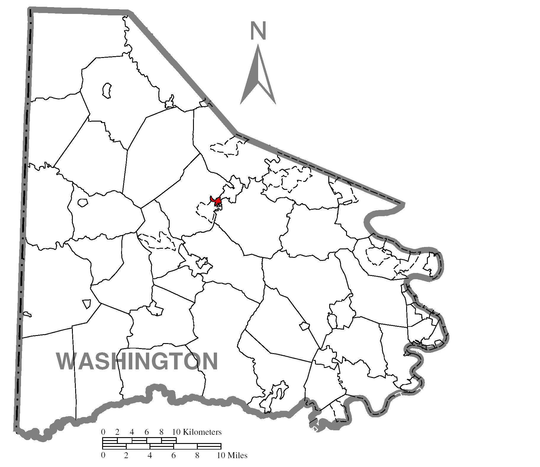 Map of Washington County higlighting Houston.